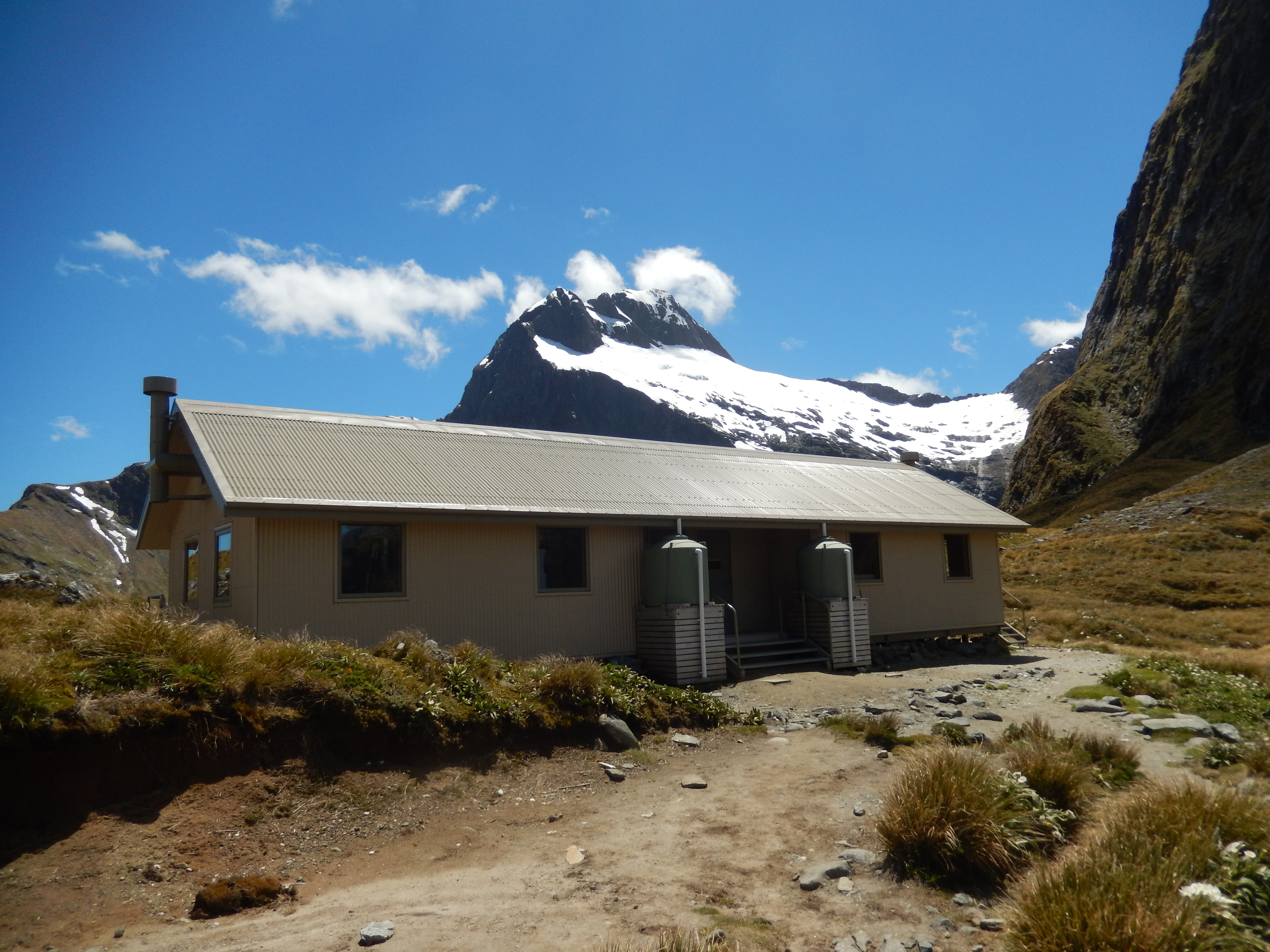 Day shelter at the Mackinnon Pass on the Milford Track